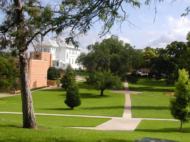 Huston–Tillotson University